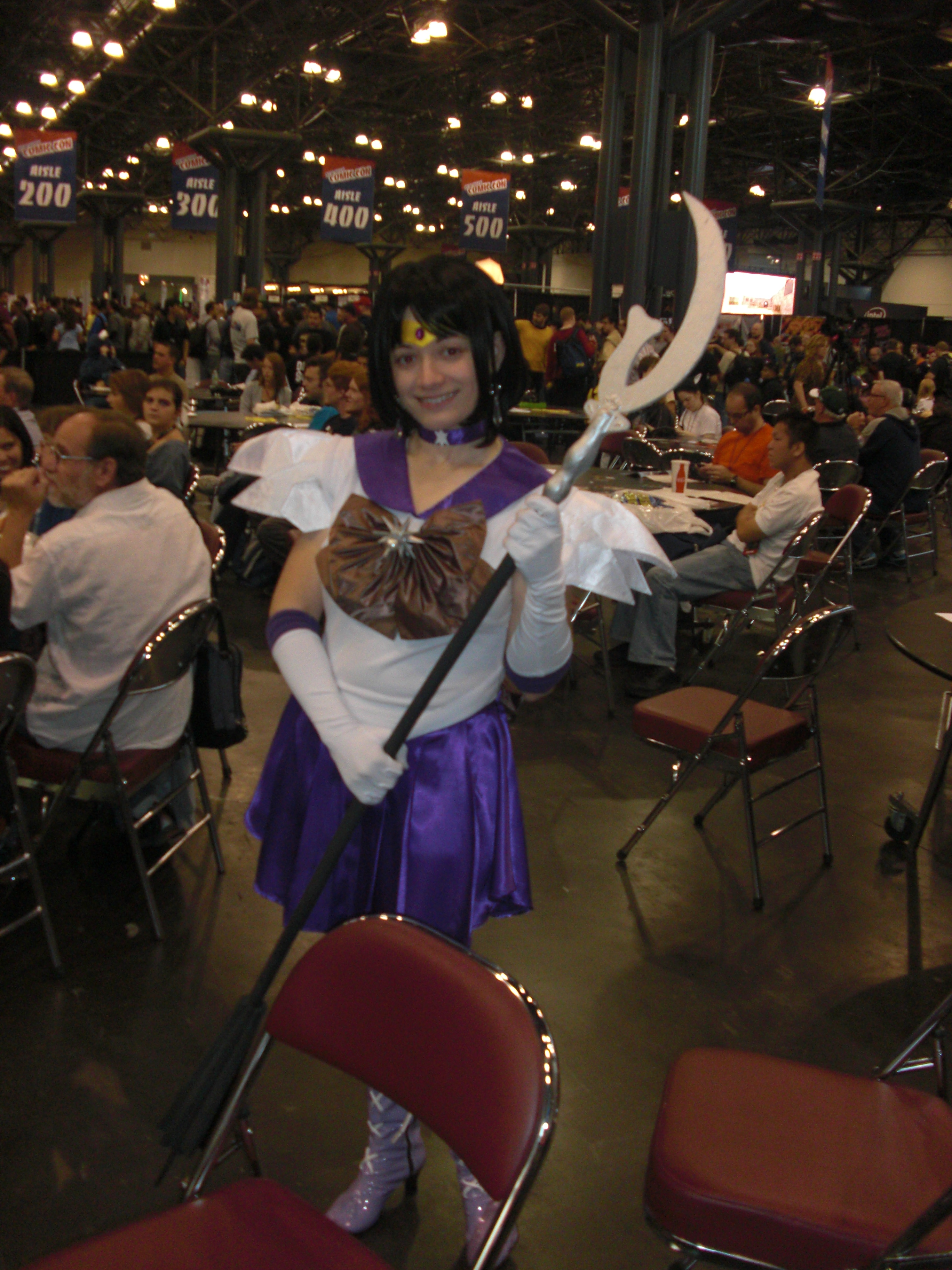 Cosplay of Sailor Saturn at the 2010 New York Comic Con.